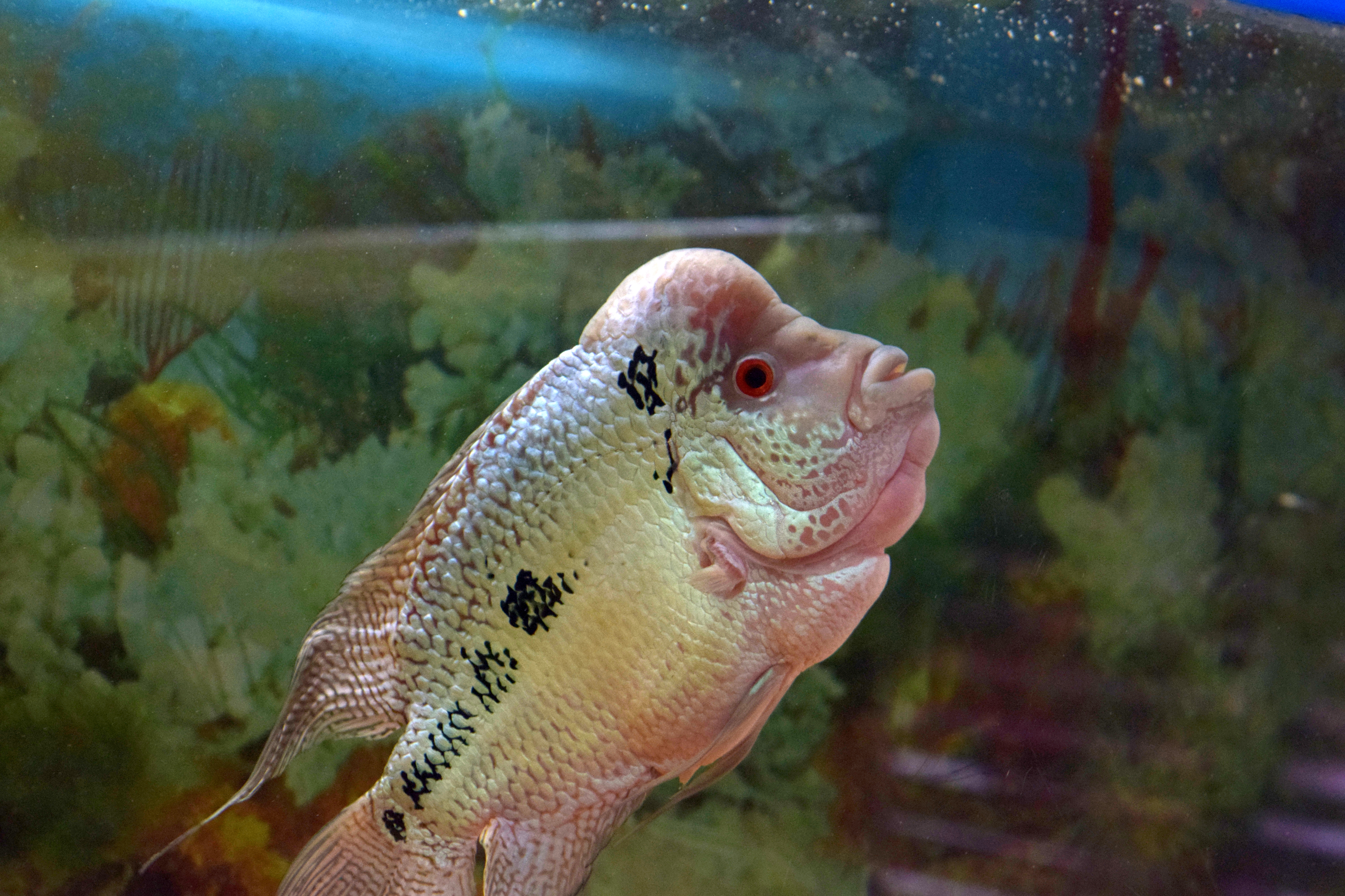 Flower horn Fish at Kankaria Aquarium, Ahmedabad